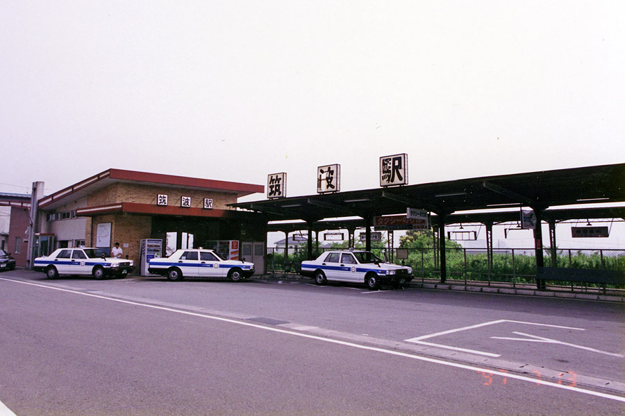 Tsukuba Railway Tsukuba Station before the renovation